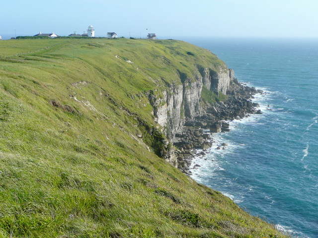 View over Wallsend Cove Looking south along the west coast of Portland towards the Old Upper Lighthouse and Coastguard Station.